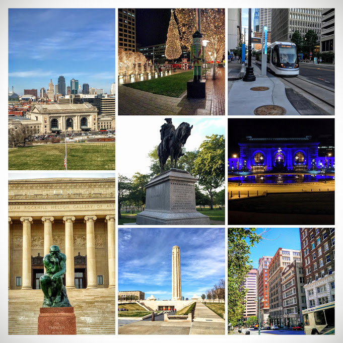 A collection of images of different parts of the city from 2014-2016.